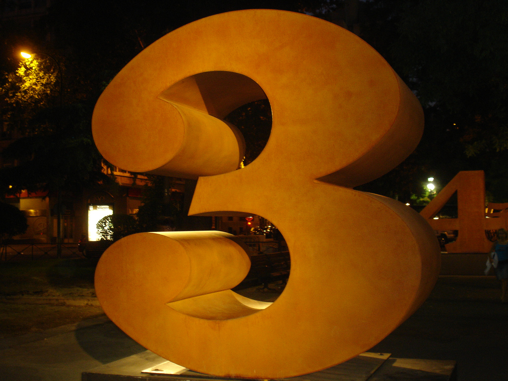 Sculpture of the number 3 by Robert Indiana.